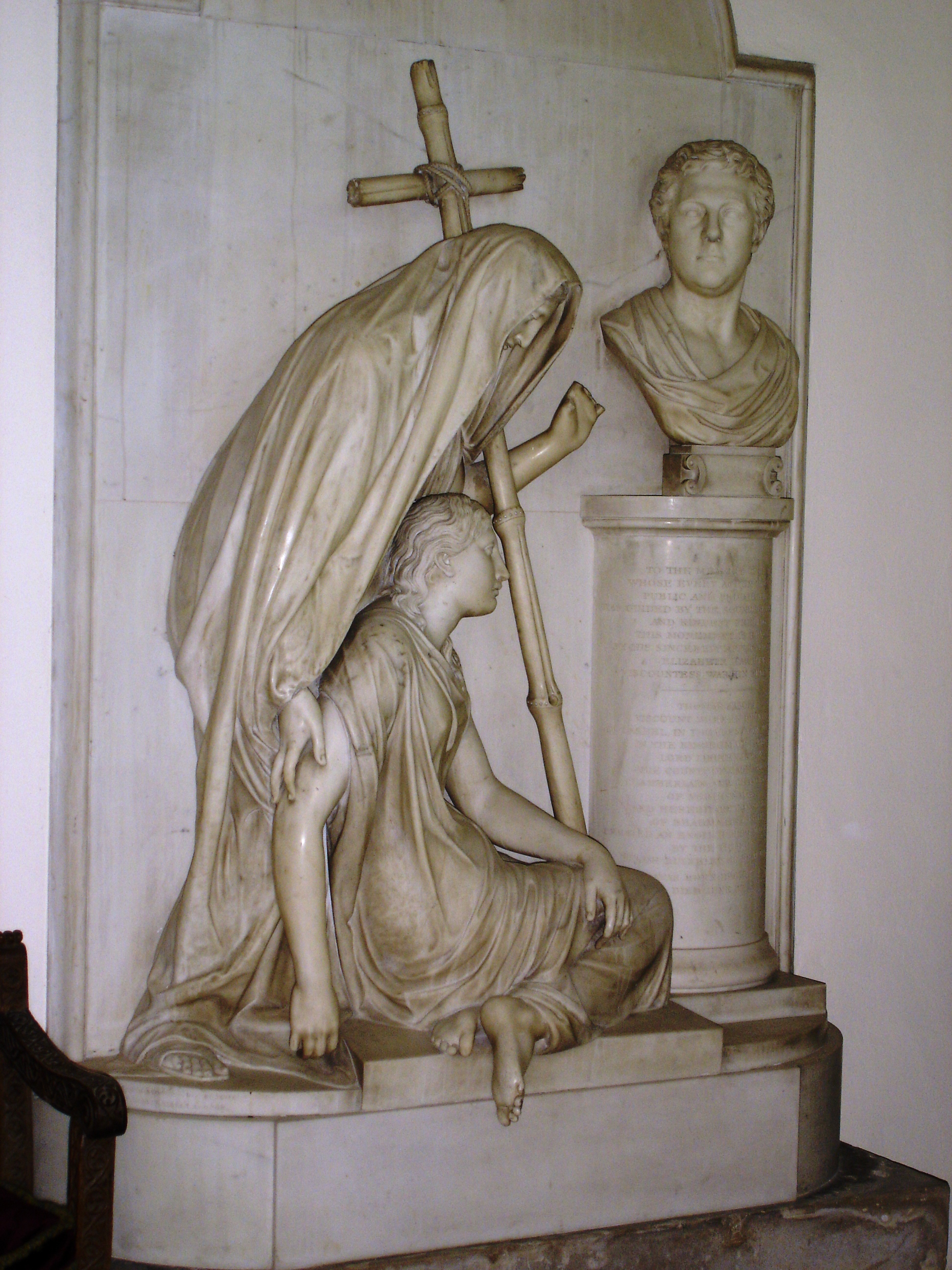 The memorial to Thomas Bulkeley, 7th Viscount Bulkeley in St Mary's Church, Beaumaris, Anglesey. He died in 1822.